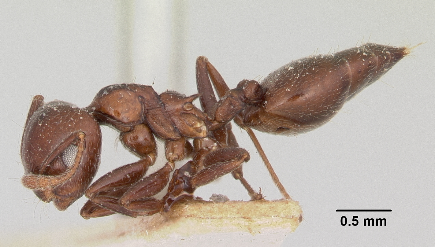 Profile view of ant Crematogaster degeeri specimen casent0101690.